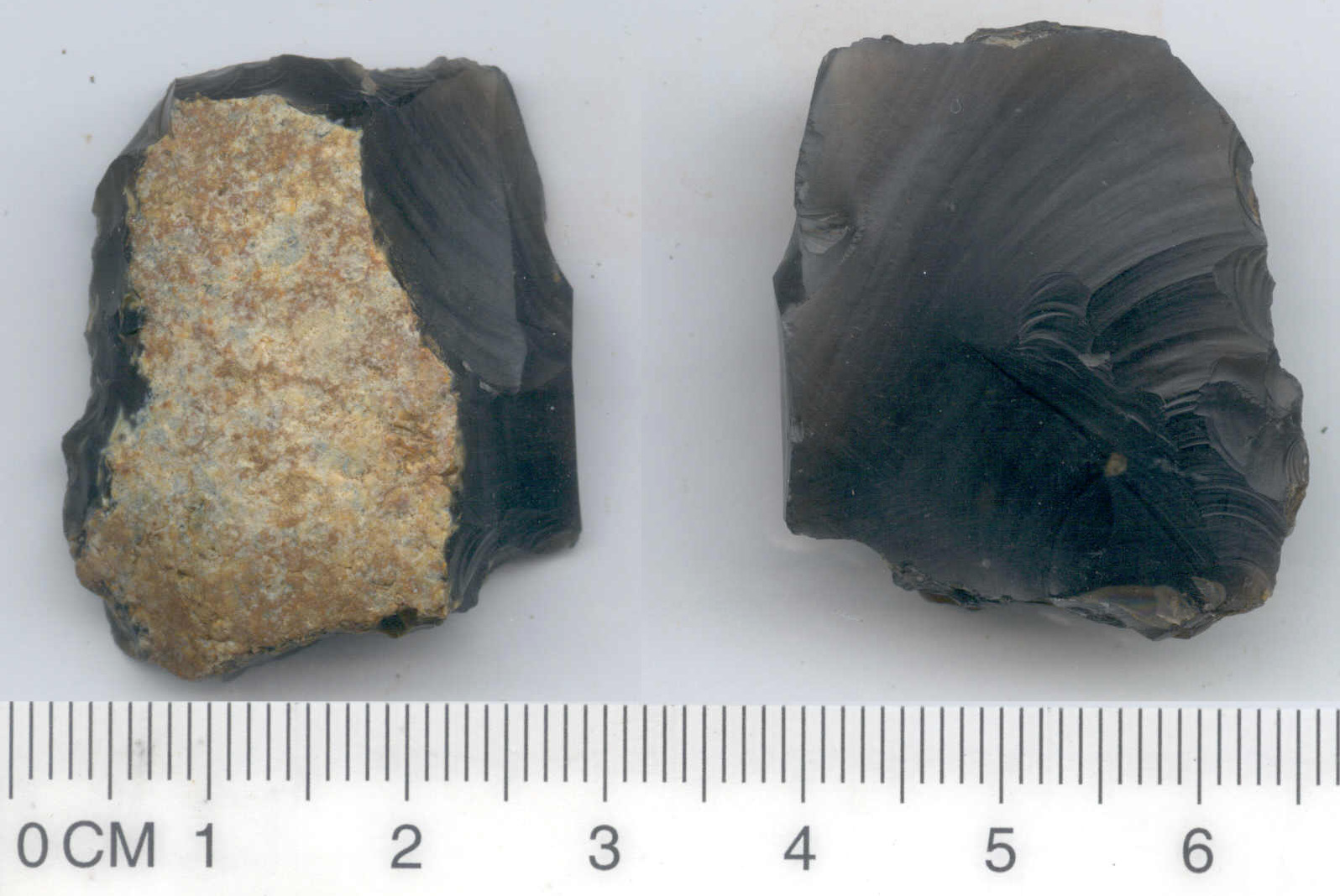 A Neolithic flint end/sidescraper on a broad, squat flake. Black flint, 40% cortex (dorsal face). Large bulb of percussion (hard hammer production) and ripples from proximal edge. Abrupt, irregular retouch on left and mesial edges. Crudely manufactured, probably Late Neolithic/Bronze Age.